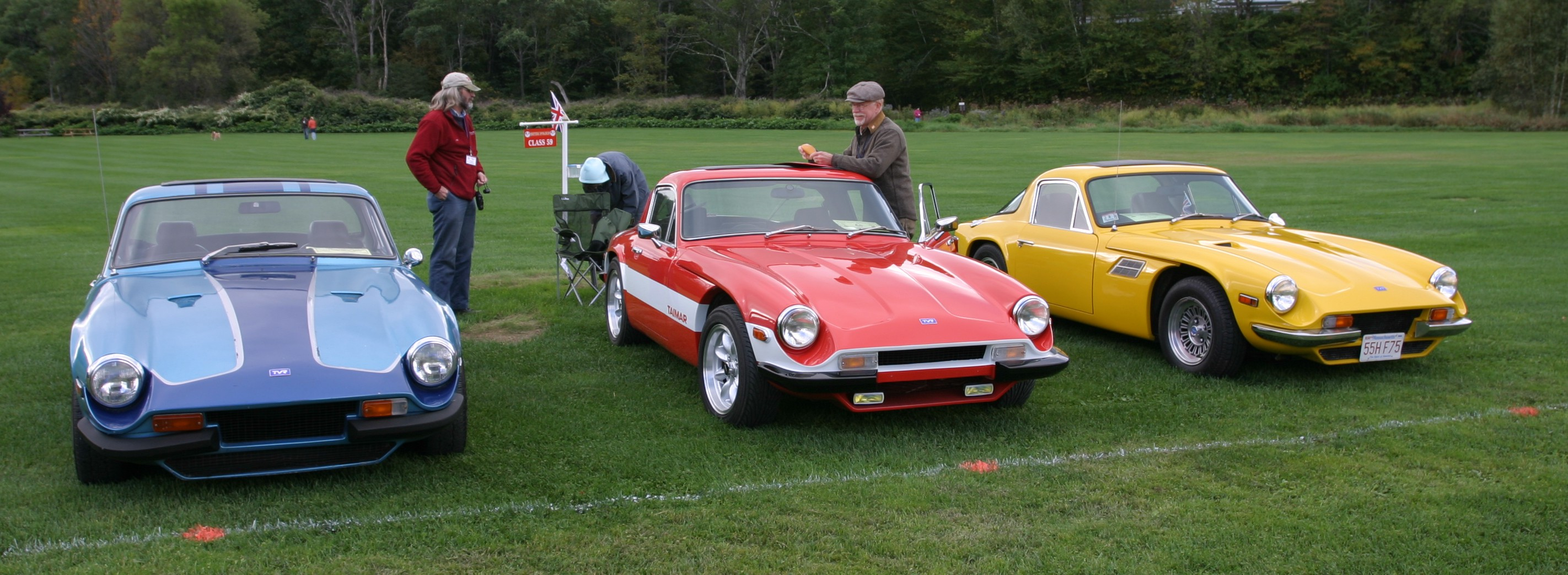 Three TVR M Series sports cars at British car event "British Invasion" in Stowe, Vermont. From left to right: 3000M, Taimar, 2500M